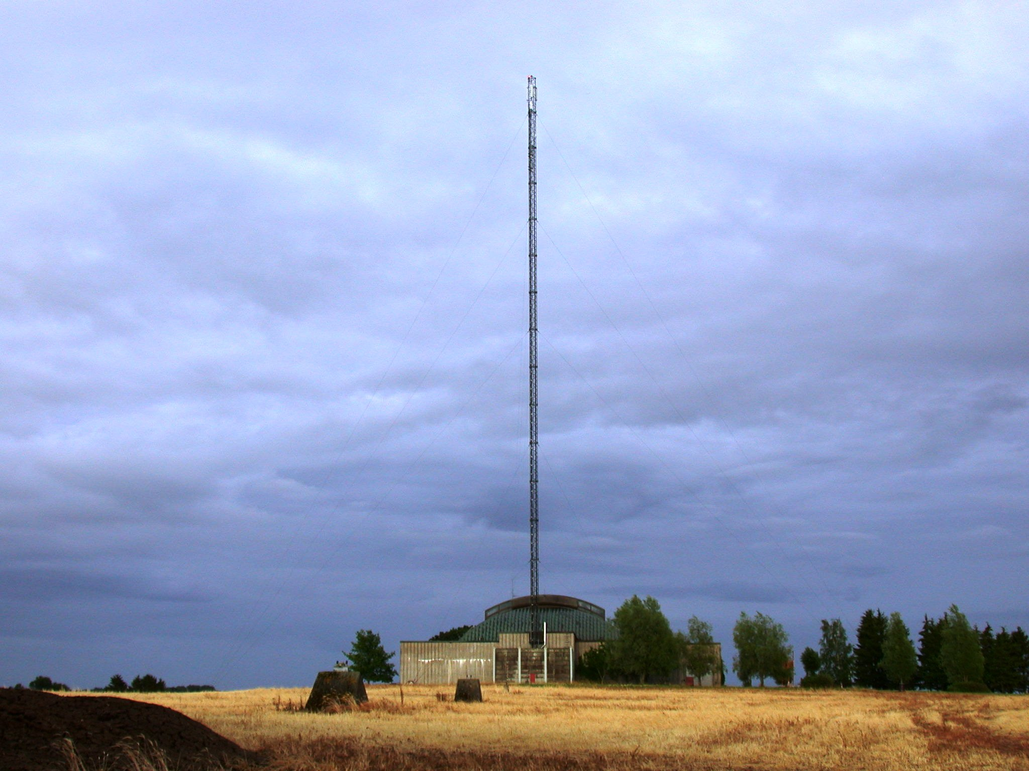 Orlunda longwave transmitter station, Vadstena, Sweden.